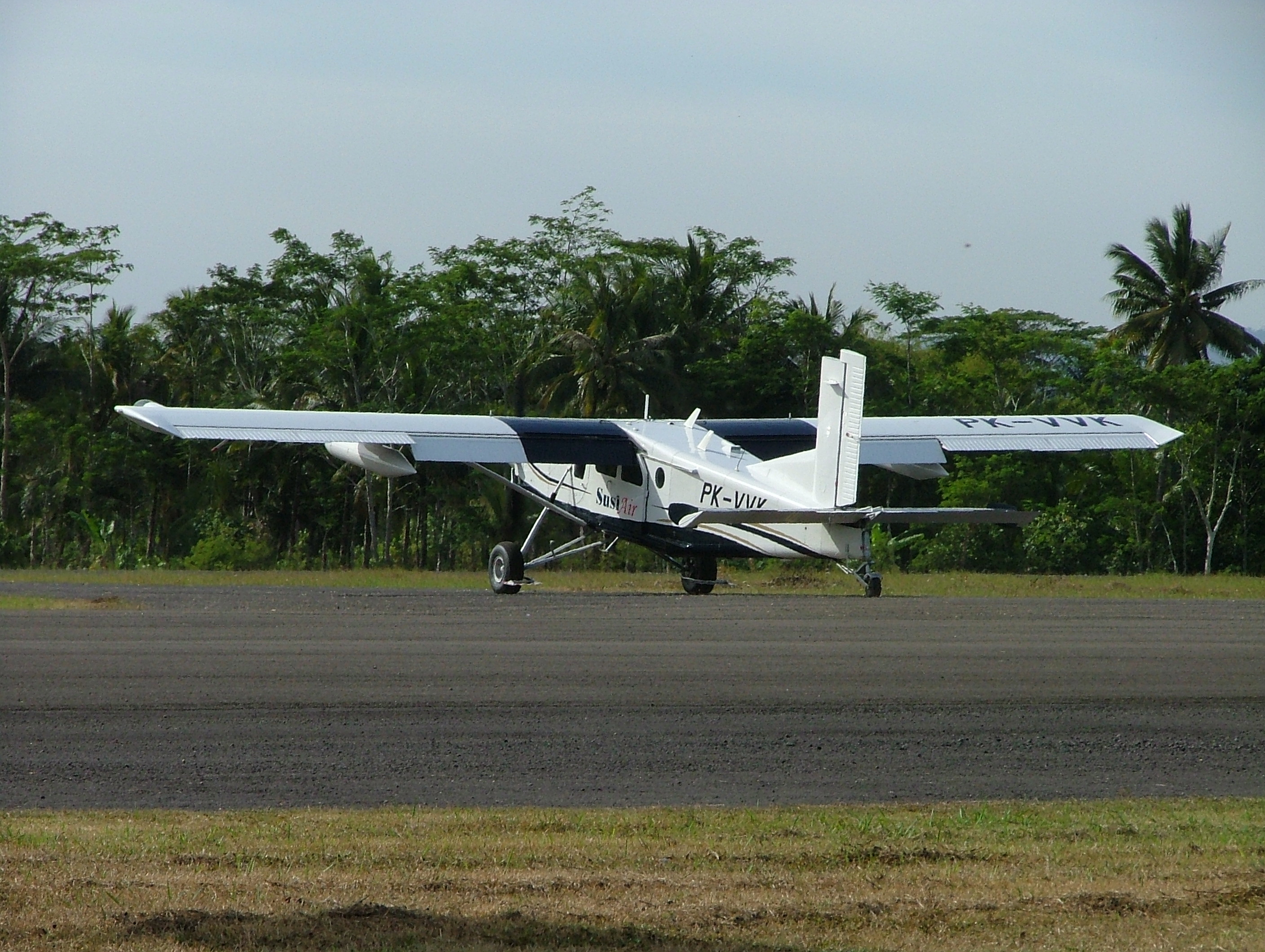 Susi Air Pilatus Turbo Porter taxiing for take-off from Nusawiru Airport, West Java